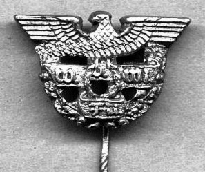 civilian stick pin: "Wehrwirtschaftsführer"